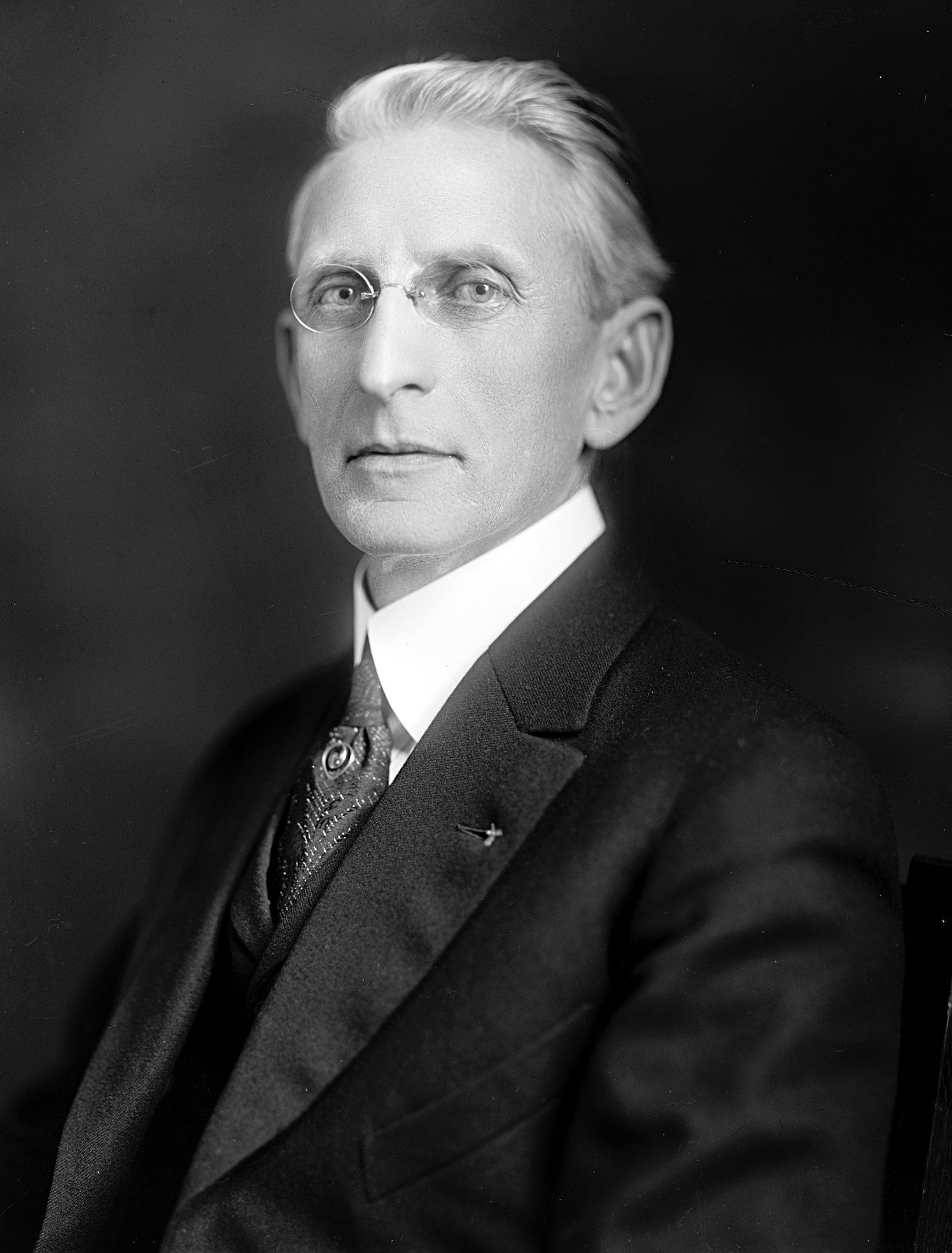 David G. Classon, US Representative from Wisconsin